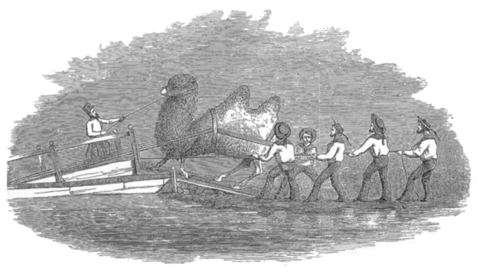 Gwinn Heap's illustration for Jefferson Davis' (at that time Secretary of War) report to the U.S. Congress in 1857. The drawings illustrated the journey of the camels to the United States.